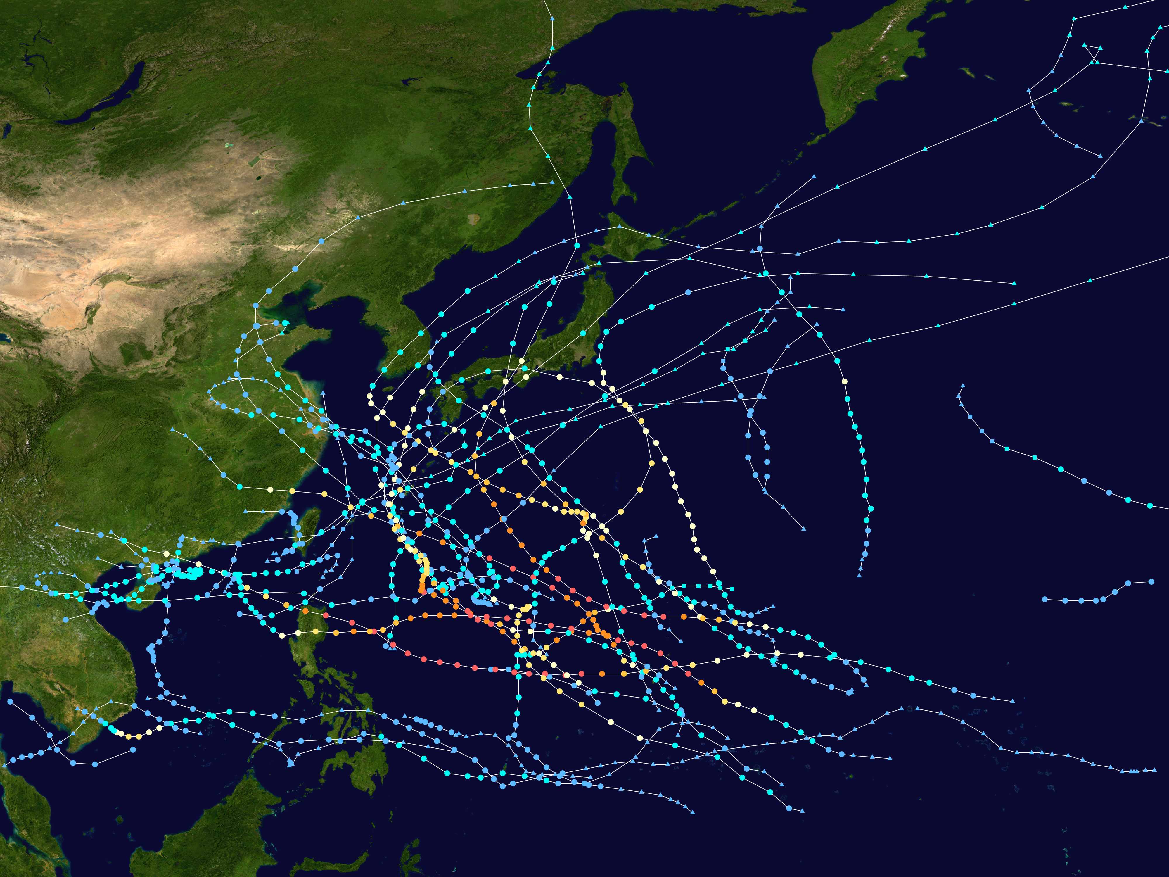 This map shows the tracks of all tropical cyclones in the 2018 Pacific typhoon season. The points show the location of each storm at 6-hour intervals. The colour represents the storm's maximum sustained wind speeds as classified in the Saffir-Simpson Hurricane Scale (see below), and the shape of the data points represent the type of the storm. Map generation parameters: --res 4000 --extra 1 --dots 0.2 --lines 0.04 --xmin 100 --xmax 180 --ymin 0 --ymax 60 Saffir–Simpson scale Tropical depression≤38 mph≤62 km/h Category 3111–129 mph178–208 km/h Tropical storm39–73 mph63–118 km/h Category 4130–156 mph209–251 km/h Category 174–95 mph119–153 km/h Category 5≥157 mph≥252 km/h Category 296–110 mph154–177 km/h Unknown Storm type Tropical cyclone Subtropical cyclone Extratropical cyclone / Remnant low / Tropical disturbance / Monsoon depression